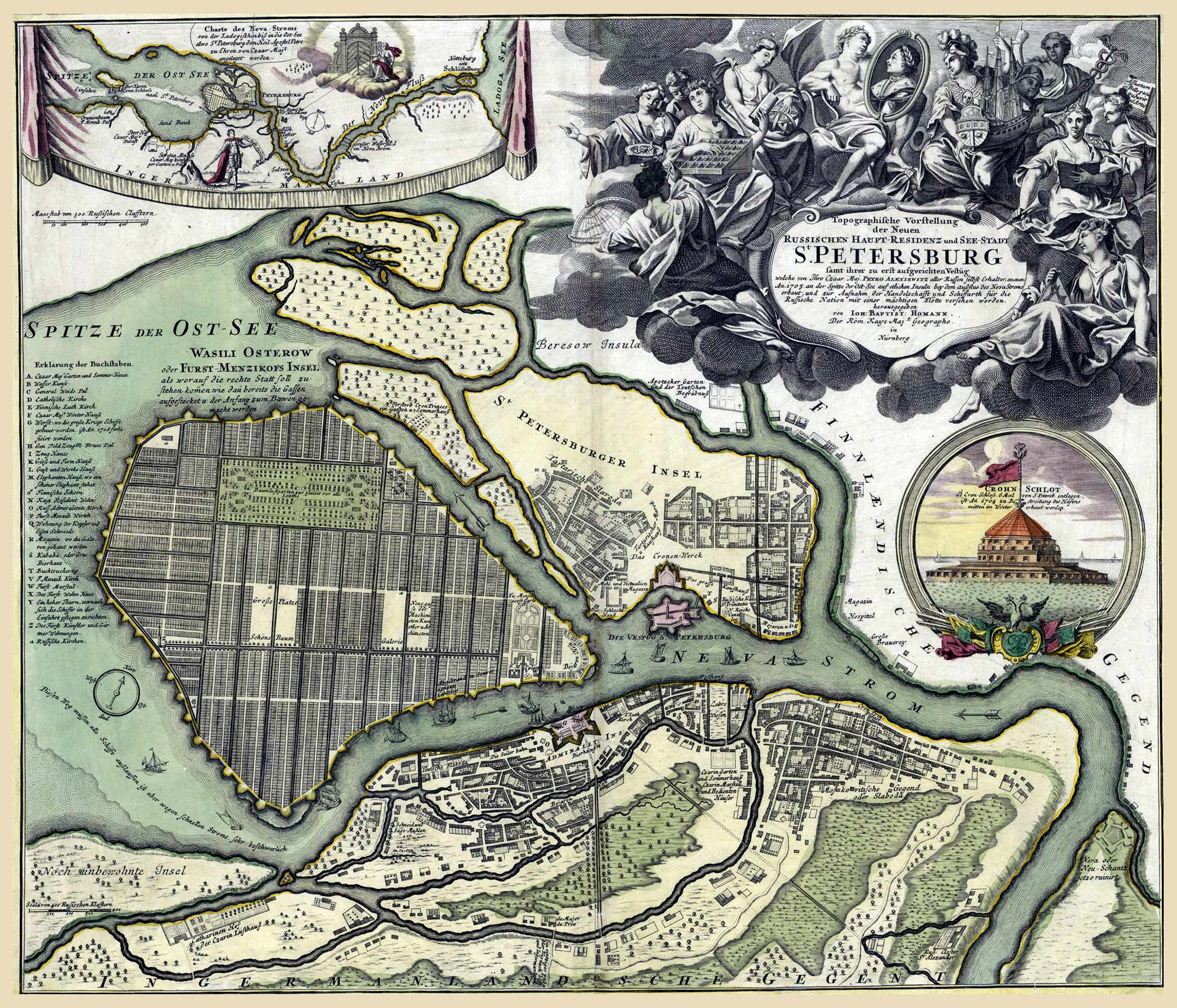 The map of St. Petersburg reflecting both actual state of thing by 1716-17 and the unaccomplished portions of the General plan for the city.